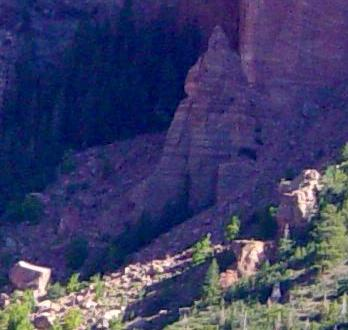 Rockslide debris in Kolob Canyons- Photo taken by Daniel Mayer in August 2004.